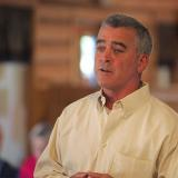 United States Representative Brad Wenstrup, of Ohio.